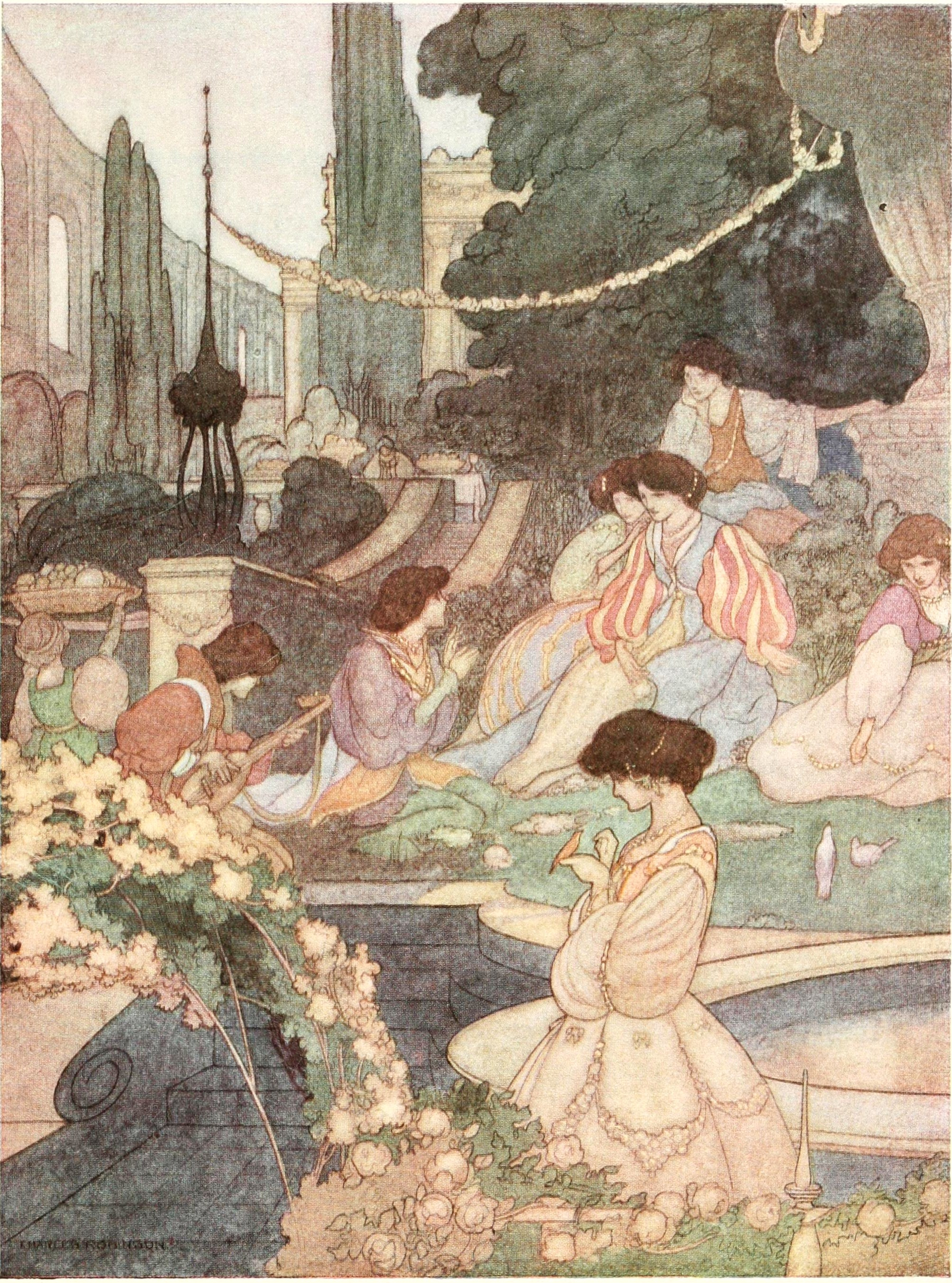 pg 27 of The Happy prince and other tales.